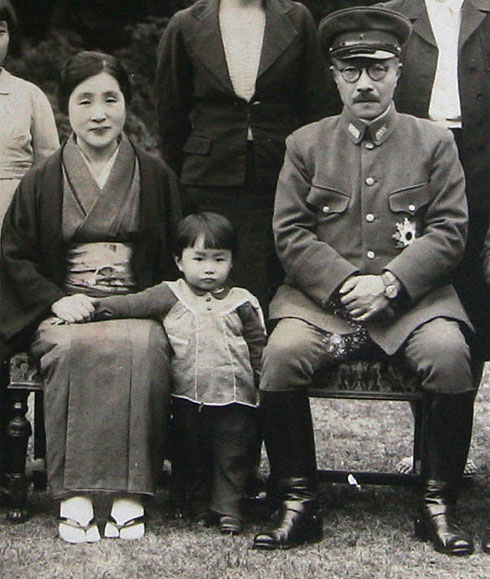 東条英機と、妻の勝子、孫の由布子。 Tōjō Hideki with wife Katsuko and granddaughter Yuko.